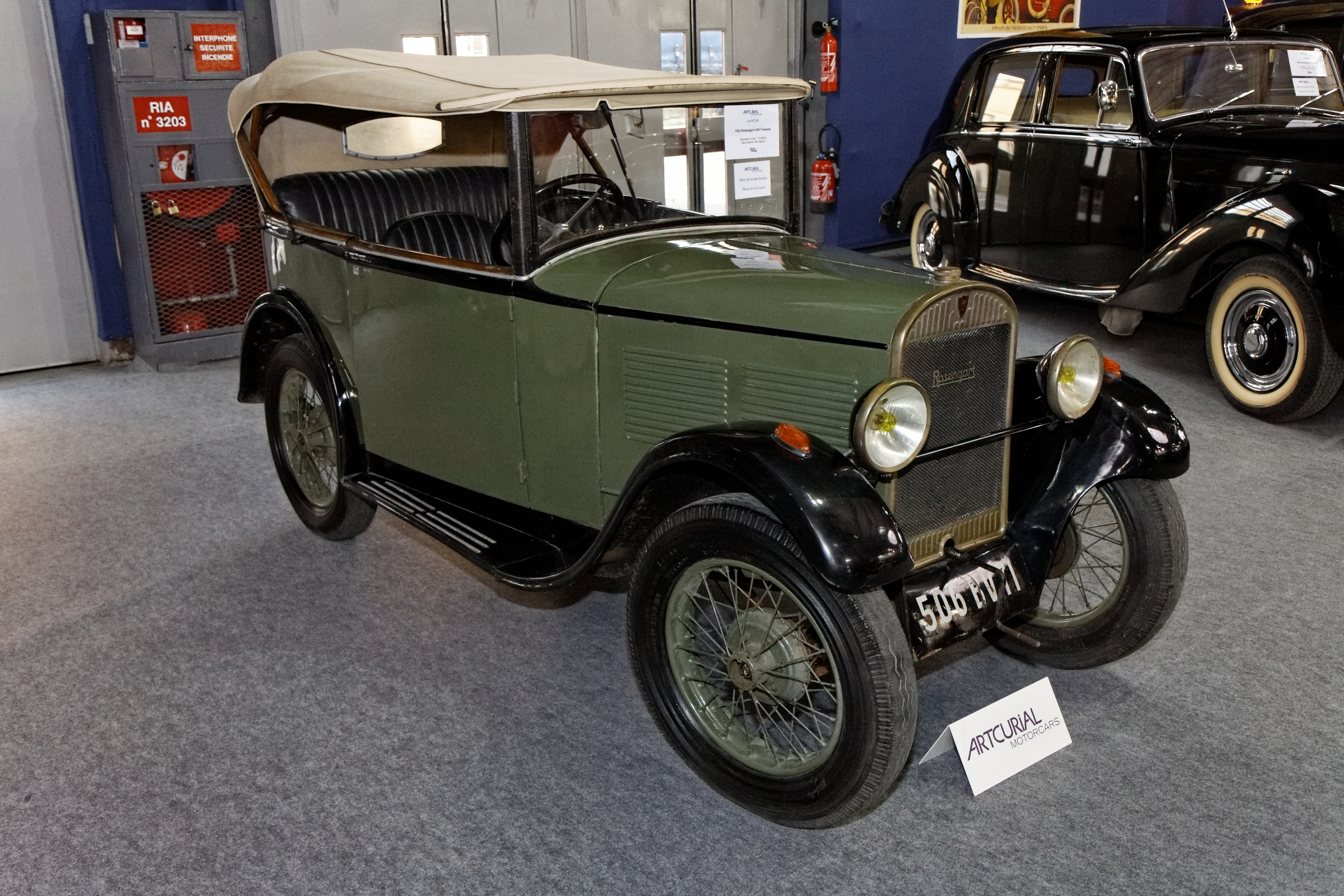 Rosengart LR4 Torpedo